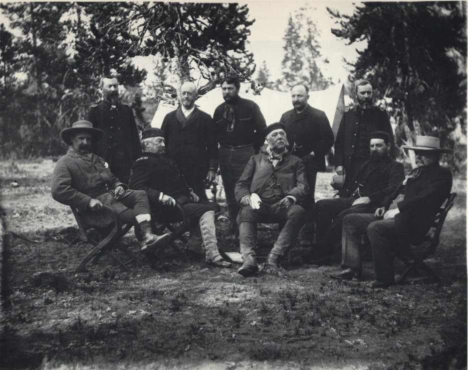 Chester A. Arthur and party, Yellowstone National Park, Wyoming, 1883 (From description at this other version: Left to right: John Schuyler Crosby, Lt. Col. Michael V. Sheridan. Lt. Gen. Philip H. Sheridan, Anson Stager, unidentified, President Arthur , unidentified, unidentified, Robert Todd Lincoln, and George G. Vest. Unidentified men may be Daniel G. Rollins, James F. Gregory, W.P. Clark, W. H. Forwood, and/or George G. Vest, Jr.)